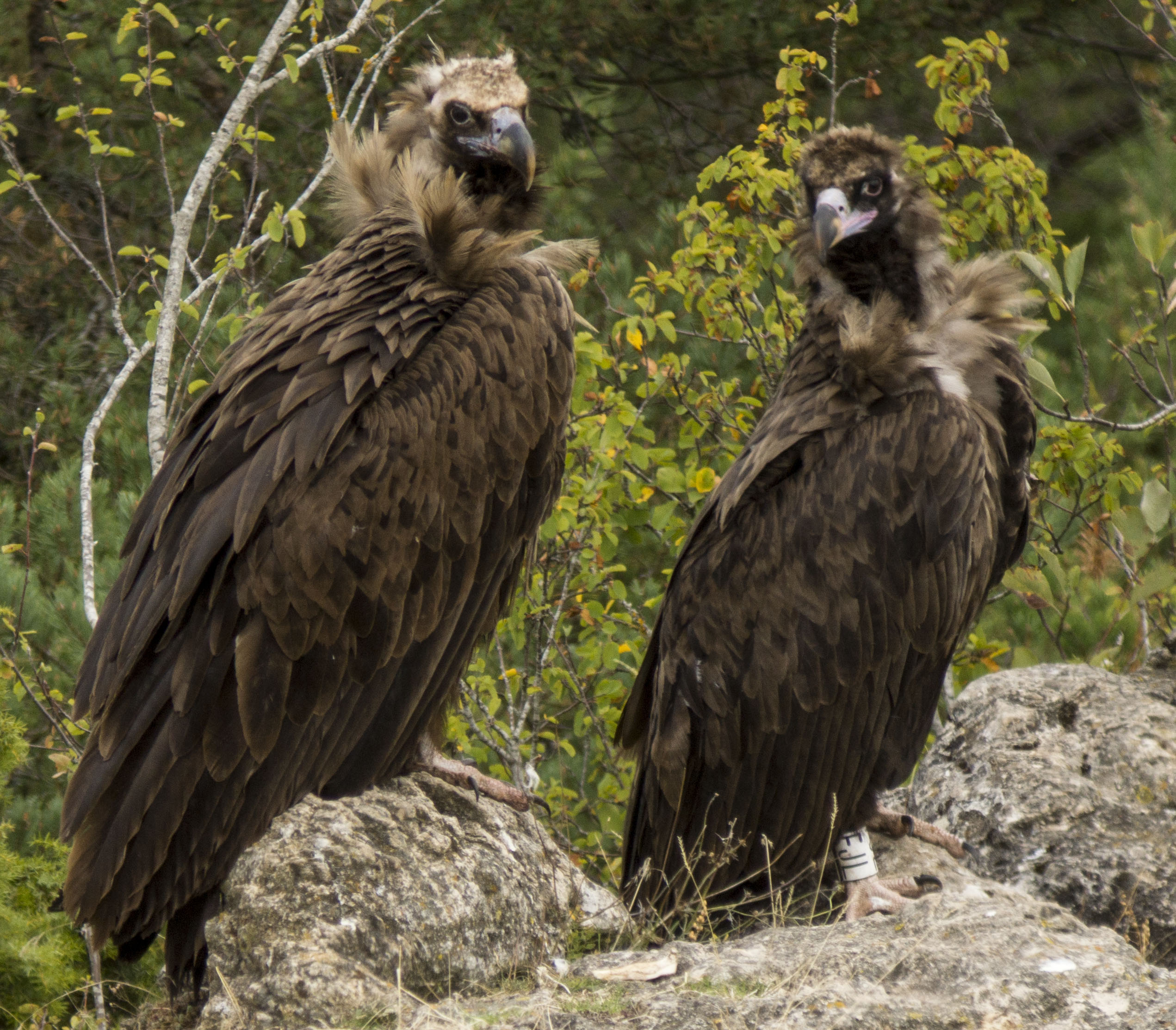 Monk vultures (Aegypius monachus) Adult on the left and Juvenile on the right. Picture taken in Causse Méjean (Lozère - 48) on 13/09/17 near a feeding plot.